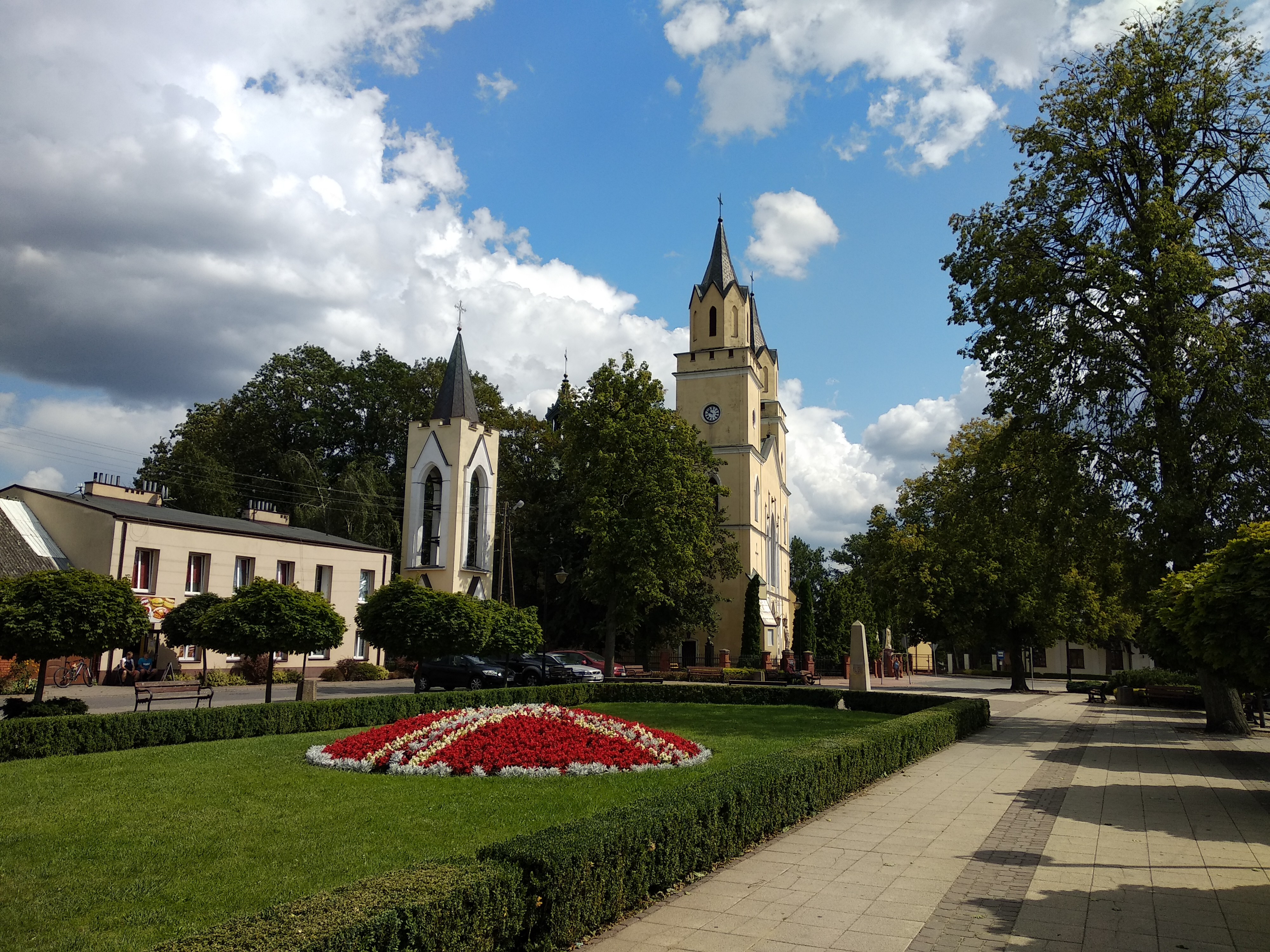 Square in Wiskitki